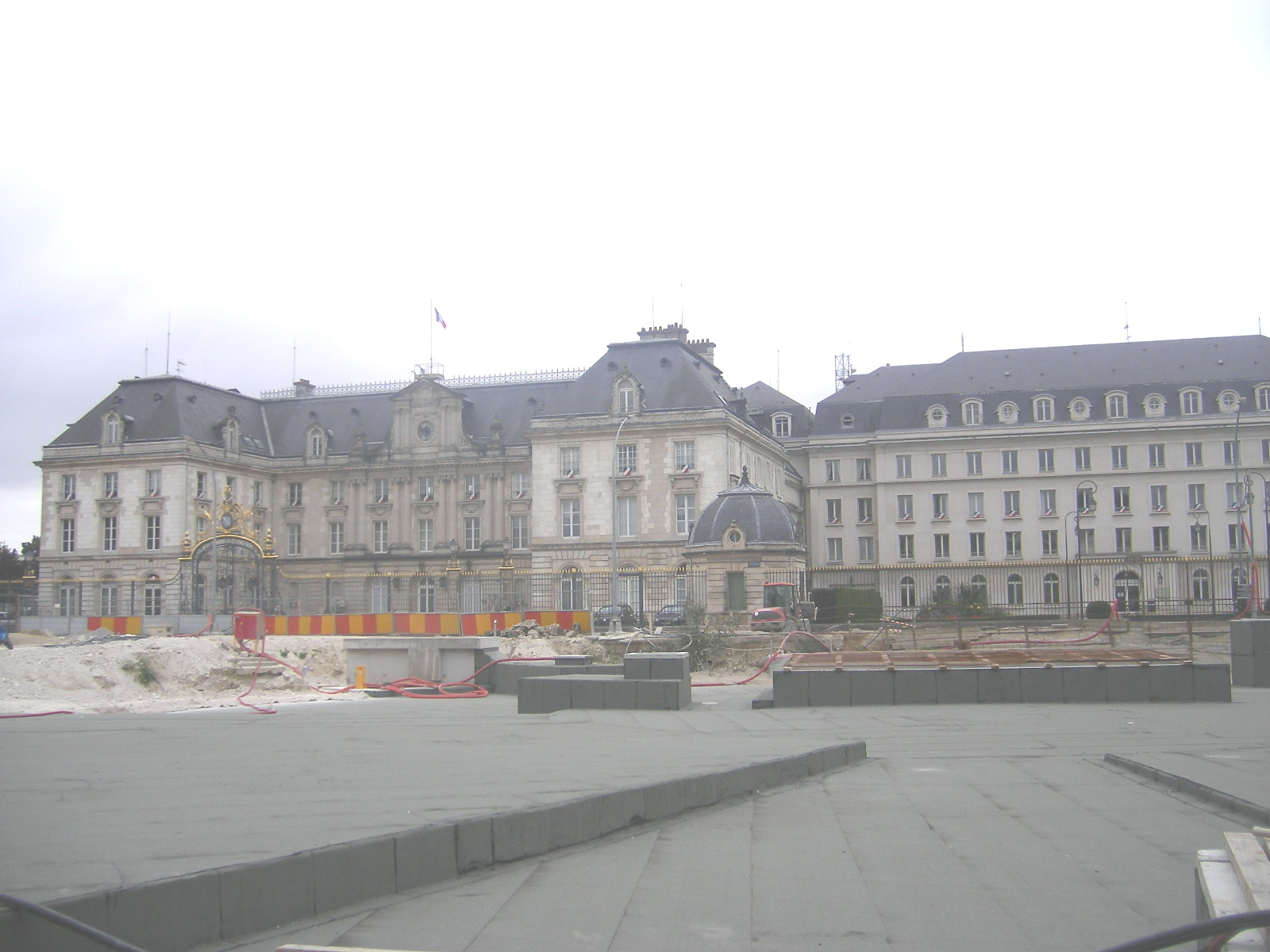 Troyes - Prefecture of Aube department